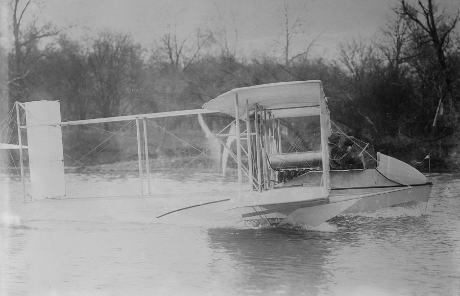 Wright Model G flying boat at takeoff, 1913 TITLE: Wright Flying Boat CALL NUMBER: LC-B2- 2925-15[P&P] REPRODUCTION NUMBER: LC-DIG-ggbain-14966 (digital file from original negative) No known restrictions on publication. MEDIUM: 1 negative : glass ; 5 x 7 in. or smaller. CREATED/PUBLISHED: [no date recorded on caption card] NOTES: Title from unverified data provided by the Bain News Service on the negatives or caption cards. Forms part of: George Grantham Bain Collection (Library of Congress). Temp. note: Batch three loaded. FORMAT: Glass negatives. REPOSITORY: Library of Congress Prints and Photographs Division Washington, D.C. 20540 USA DIGITAL ID: (digital file from original neg.) ggbain 14966 CARD #: ggb2005014970